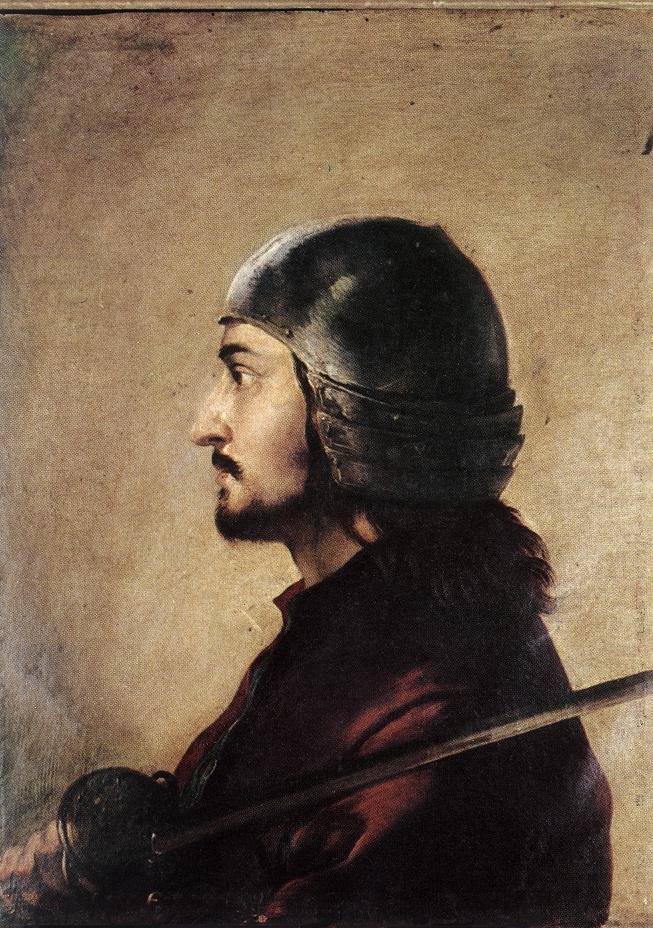 Portrait of a warrior